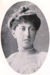 Blanche Bingley Hillyard (1863-1946), English Tennis player and 6 times Wimbledon singles champion